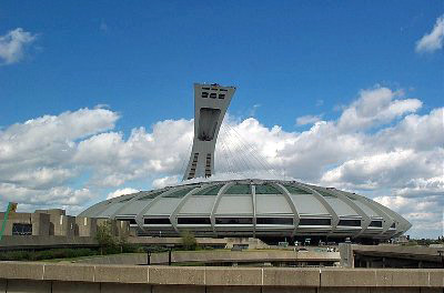 Montreal's Stade Olympique. Personal snapshot by Montréalais.